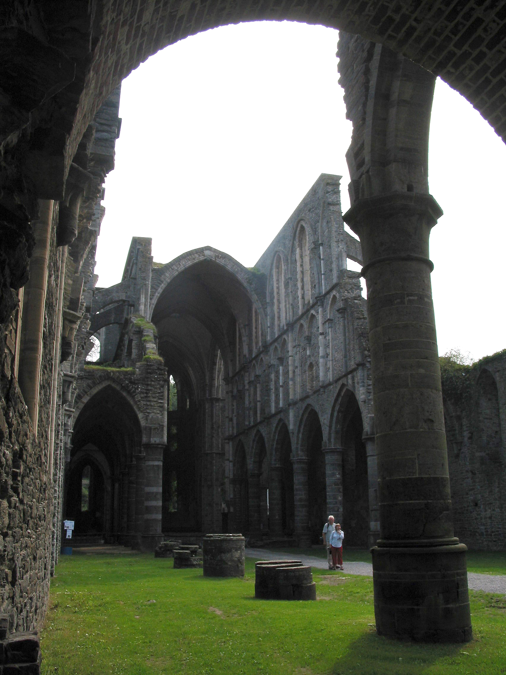 Villers-la-Ville (Belgium), northern aisle and nave of the abbey church ruins (XIIIth century).